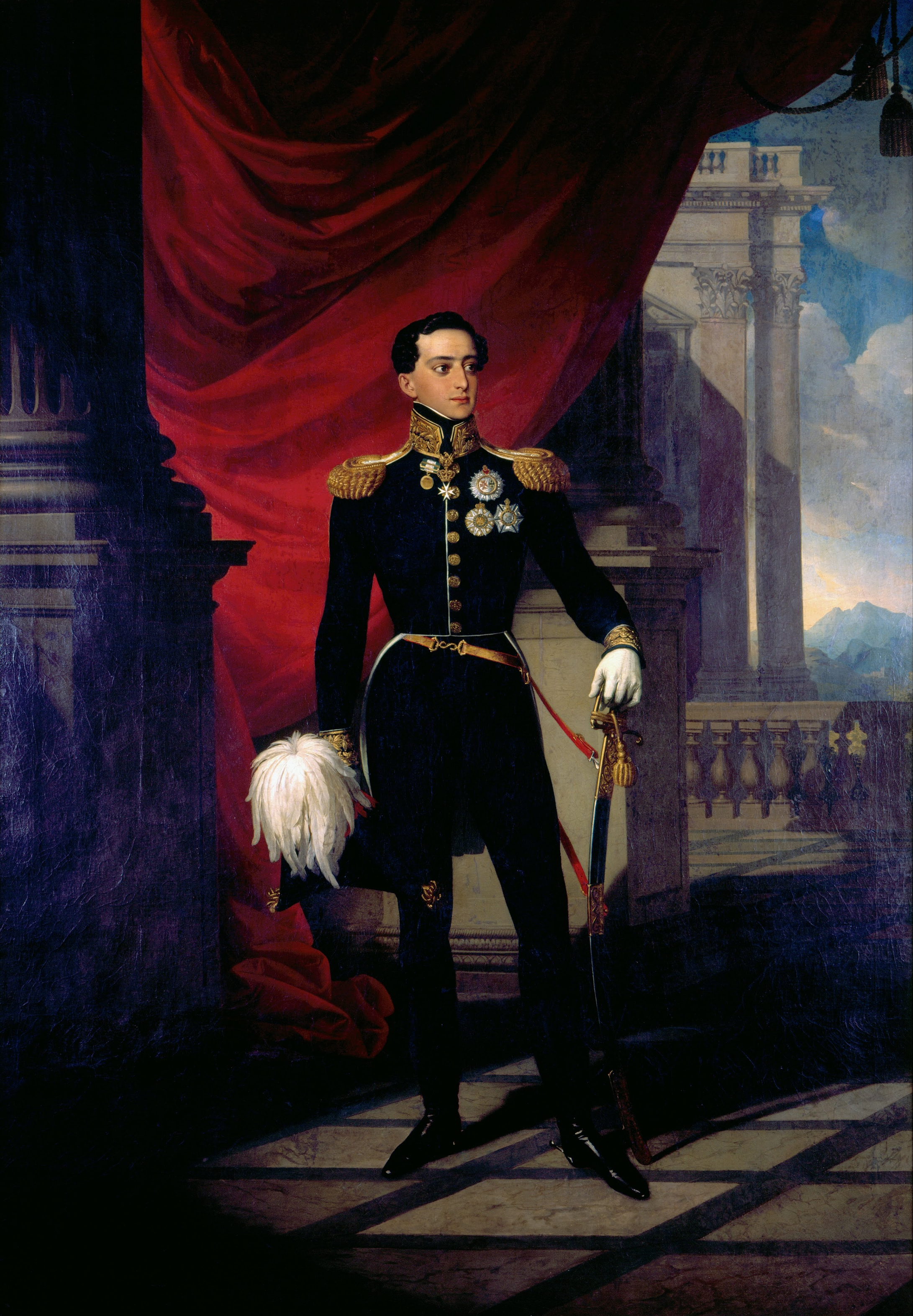 Michael of Braganza (1802-1866), as Infante of Portugal in exile in Vienna.